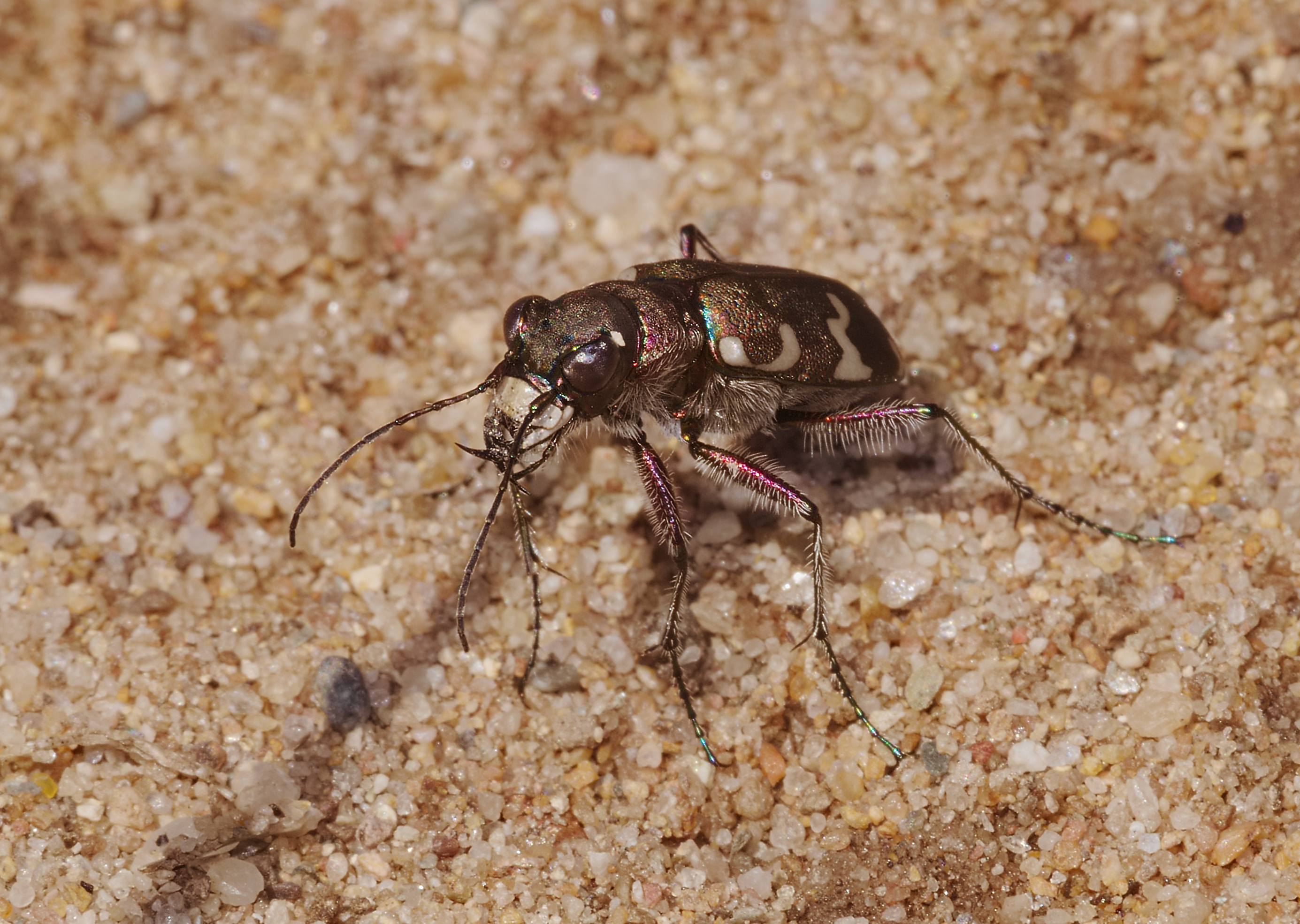 Northern dune tiger beetle - Cicindela hybrida. Taken by the Mulde (a river) in Eilenburg, Saxony, Germany.